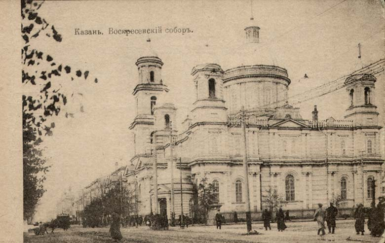 Voskresenskaya Church in Kazan in Kremlevskaya (former Voskresenskaya street), destroyed after 1917